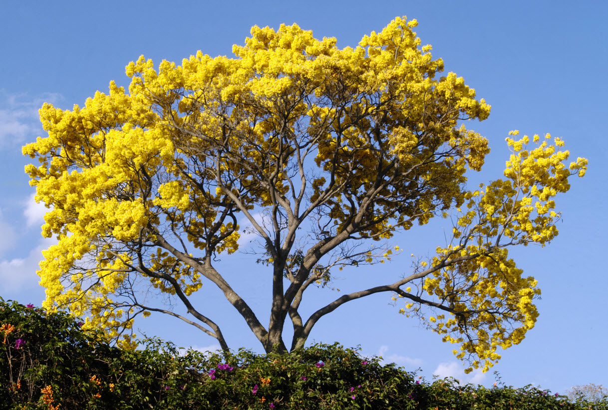 Yellow tree. Common name: Guayacán. Picture taken in Cuernavaca, Mor., Mexico